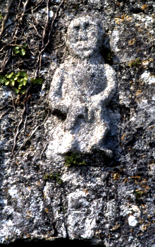 Sheela na gig above the church door in Killinaboy, Ireland